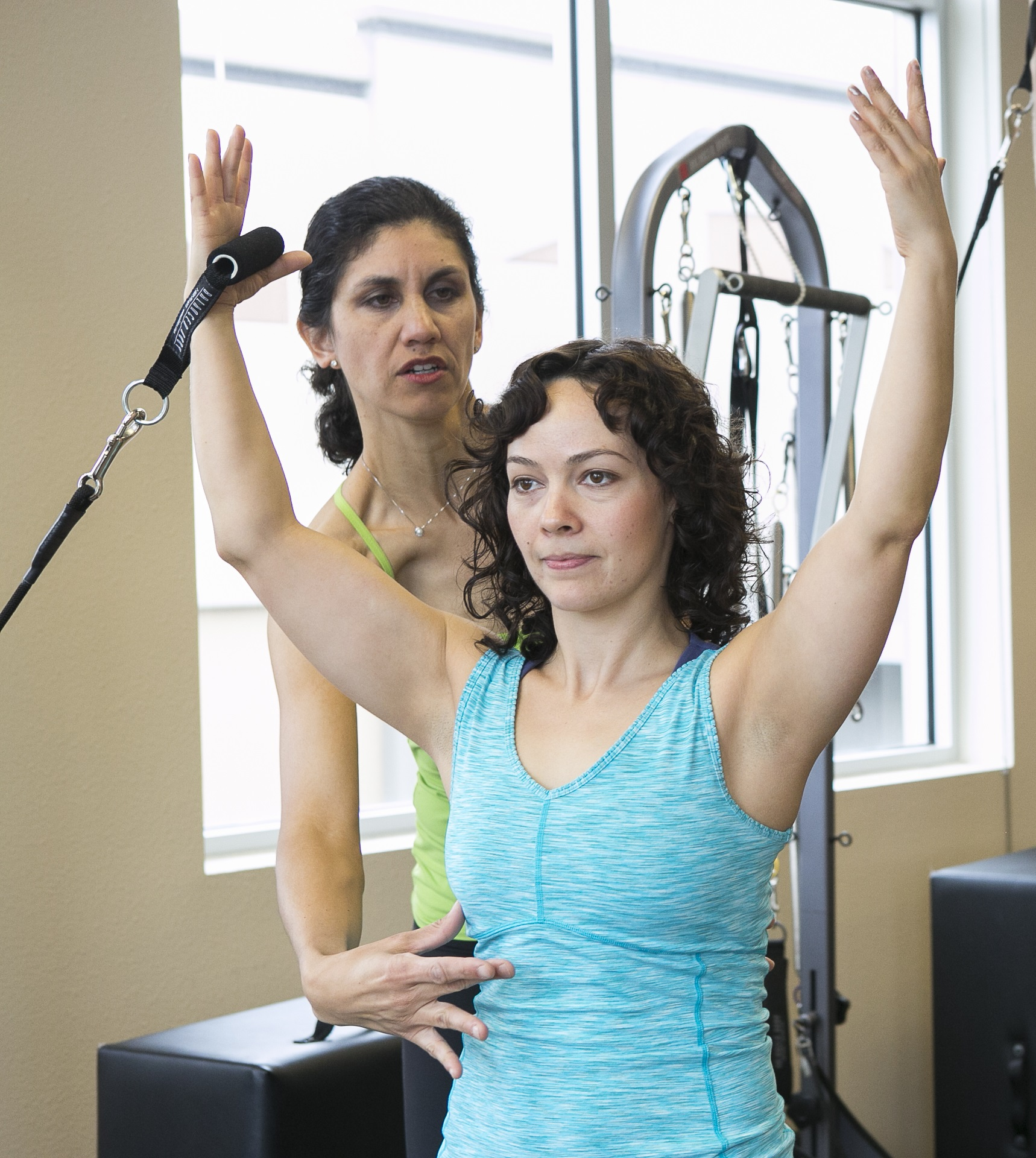 A Pilates teacher instructs a student in proper form.